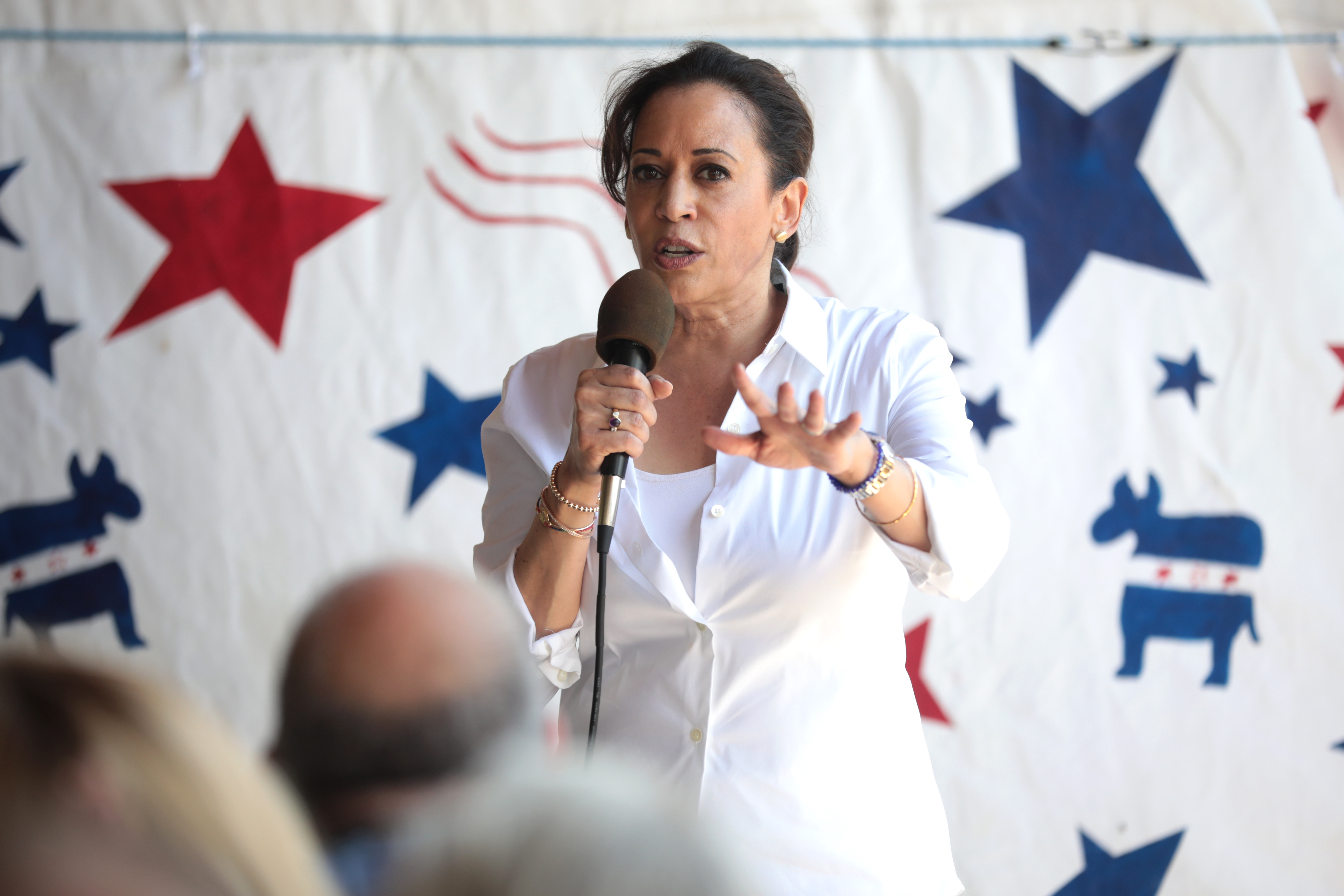 U.S. Senator Kamala Harris speaking with supporters at the annual West Des Moines Democratic Party Summer picnic at Legion Park in West Des Moines, Iowa.